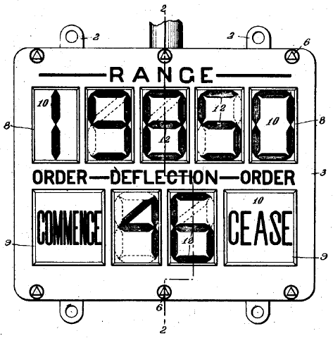 Drawing from US patent application for an 8-segment illuminated display. The patent was issued on Nov 8, 1910.